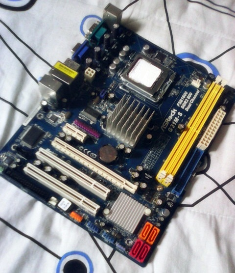 ASRock G31M-S micro-ATX motherboard